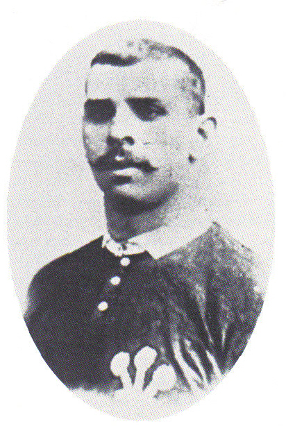 Dai 'Tarw' Jones, Welsh international rugby union player c 1905 in Wales jersey